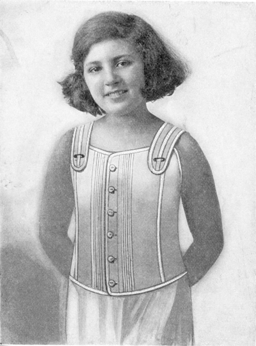 37 "Grace Darling" white corset waist for misses eight to sixteen years old, made of Royal Jean cloth, corded front and back, stripped front and sides, button front, lace back , open adjustable shoulders, hose supporter tabs with eyelets. Each in box. Sizes 20 to 28. Dozen, $8.50